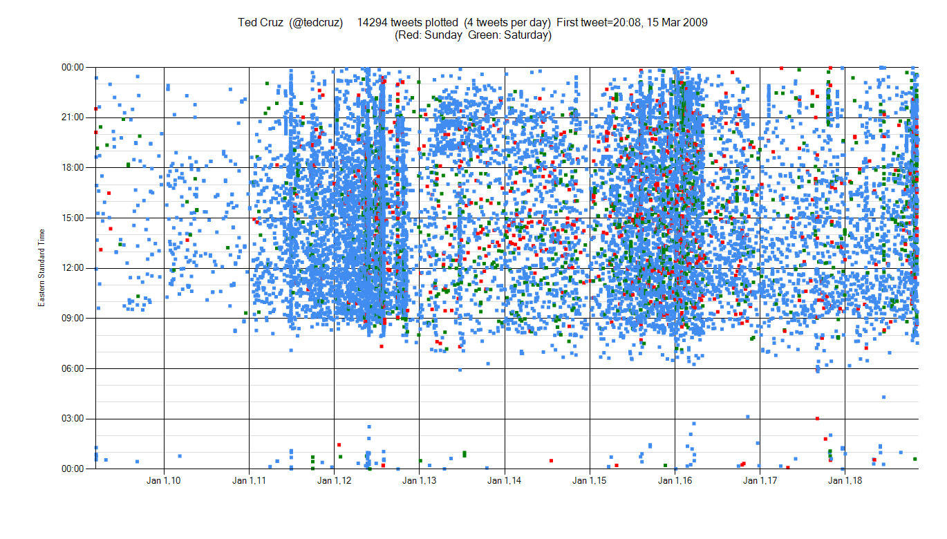 Twitter activity of Ted Cruz from his first tweet in March 2009 to September 2017